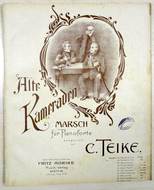 Alter Kameraden, by Carl Teike